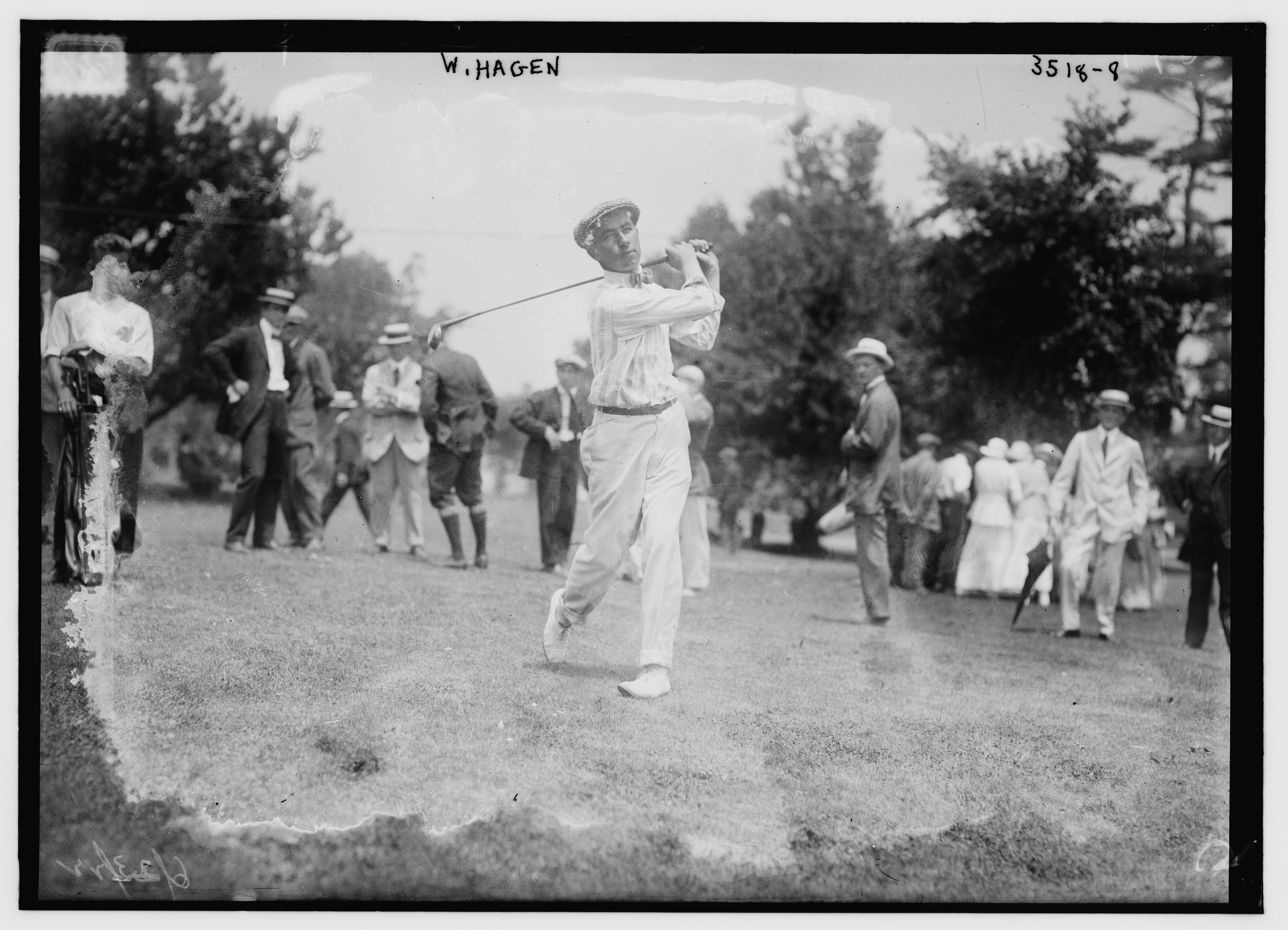 Title: W. Hagen Abstract/medium: 1 negative : glass ; 5 x 7 in. or smaller.